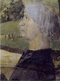 Portrait of Giorgio di Challant